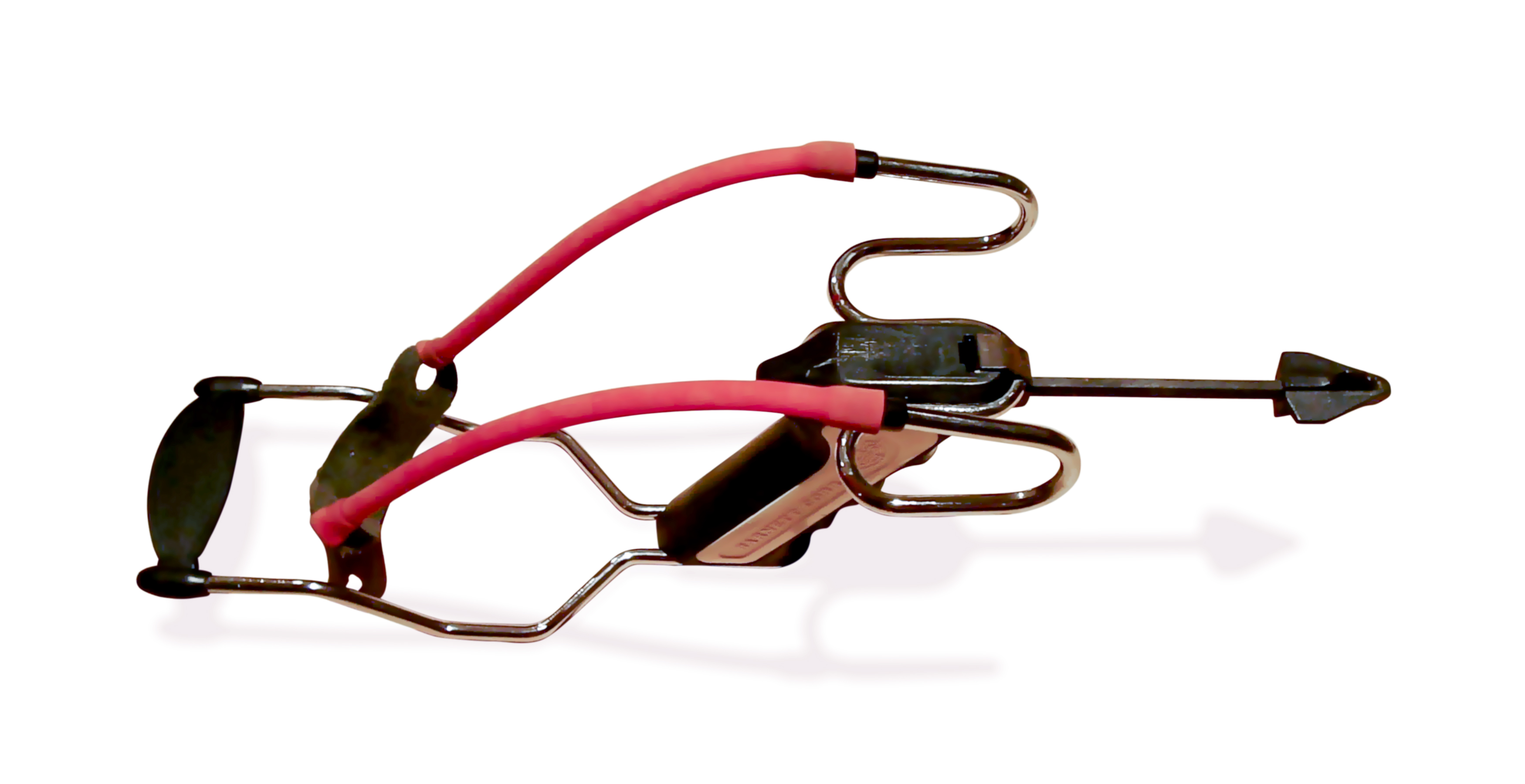 Precision slingshot